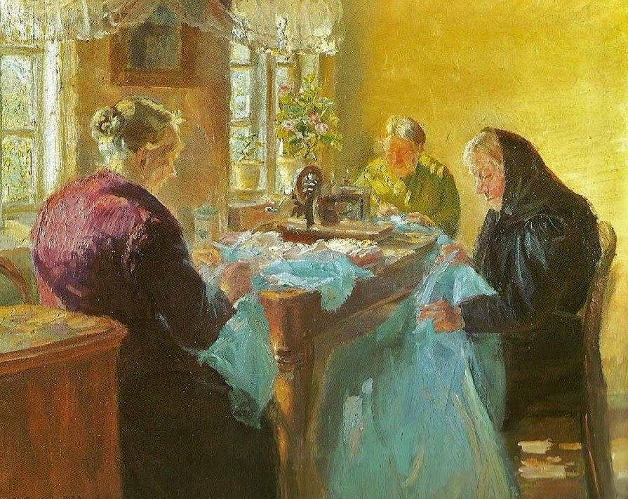 Sewing_a_Dress_for_a_Costume_Party